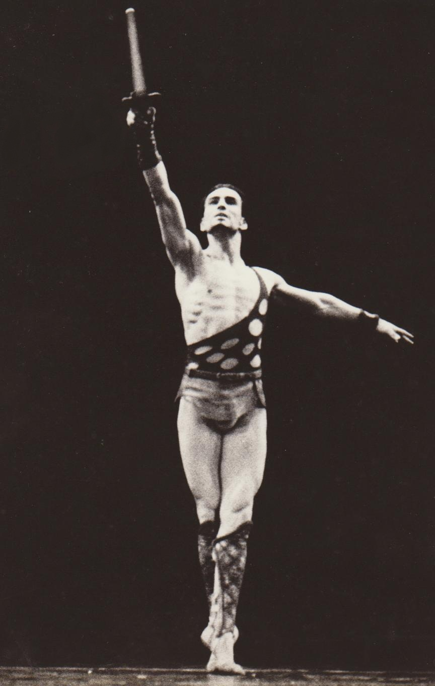 Alejandro Godoy